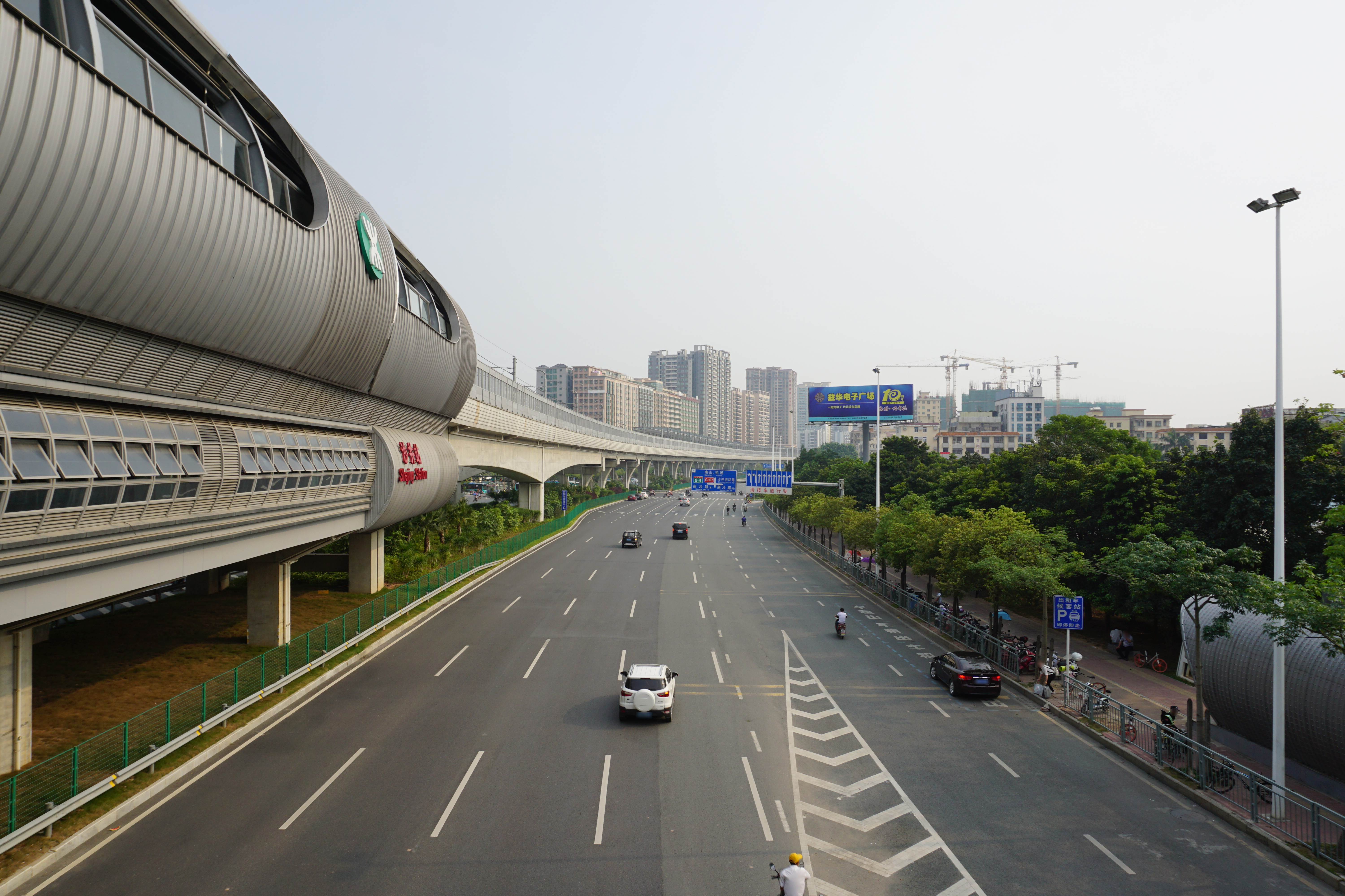 Bao'an Boulevard in Shajing, Shenzhen.